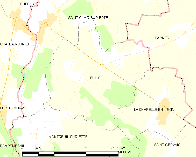 Map of French municipality Buhy